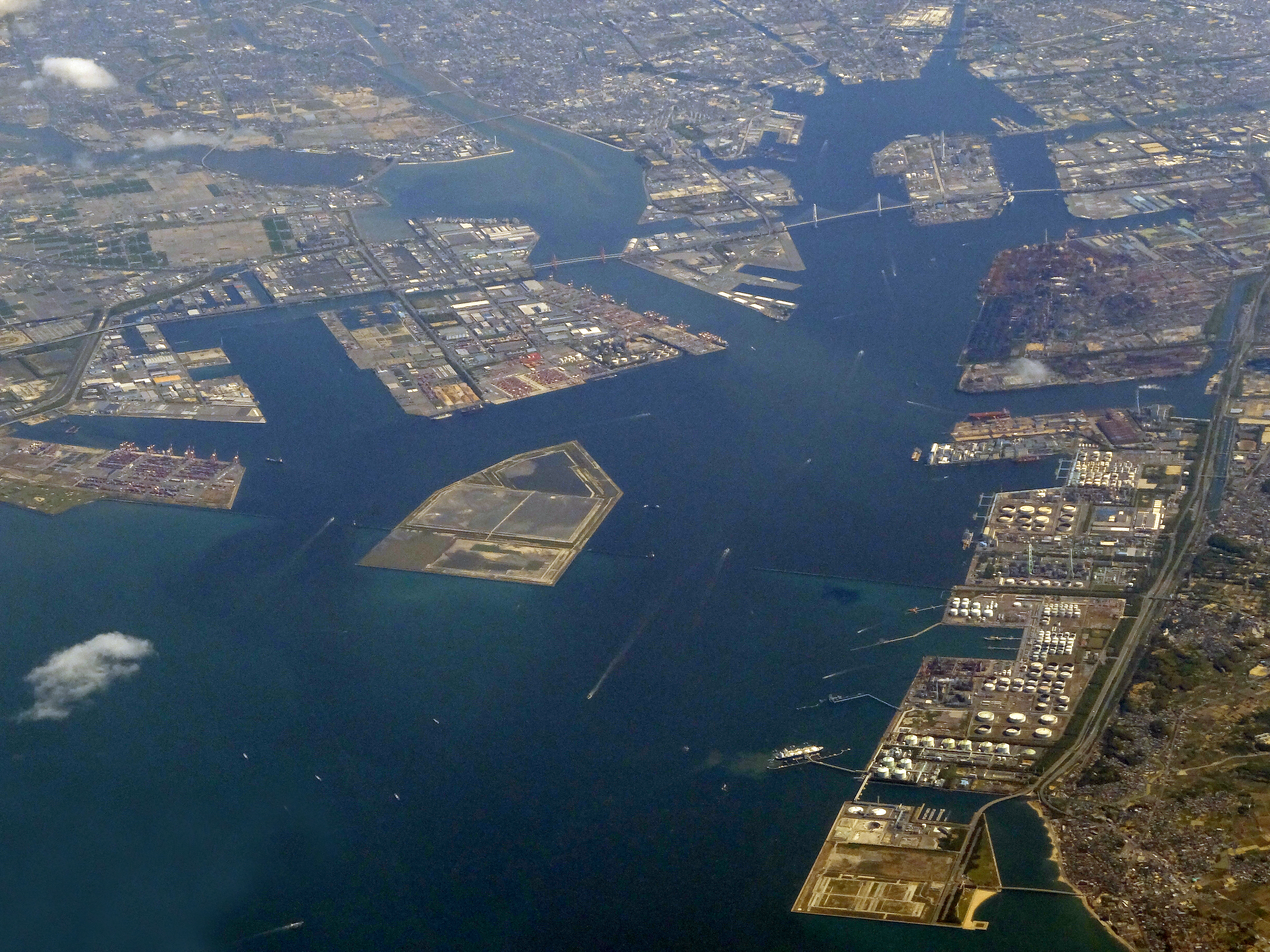 Nagoya_Port from the sky in Nagoya, Aichi prefecture, Japan.